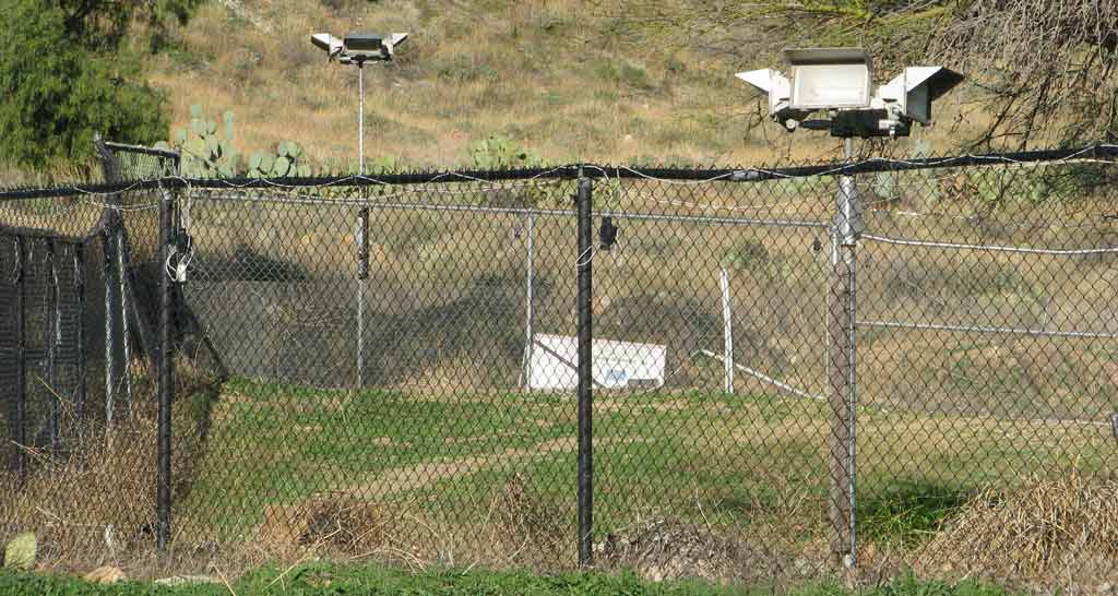 Gilman Hot Springs Road - RPF fence showing motion sensor and floodlights